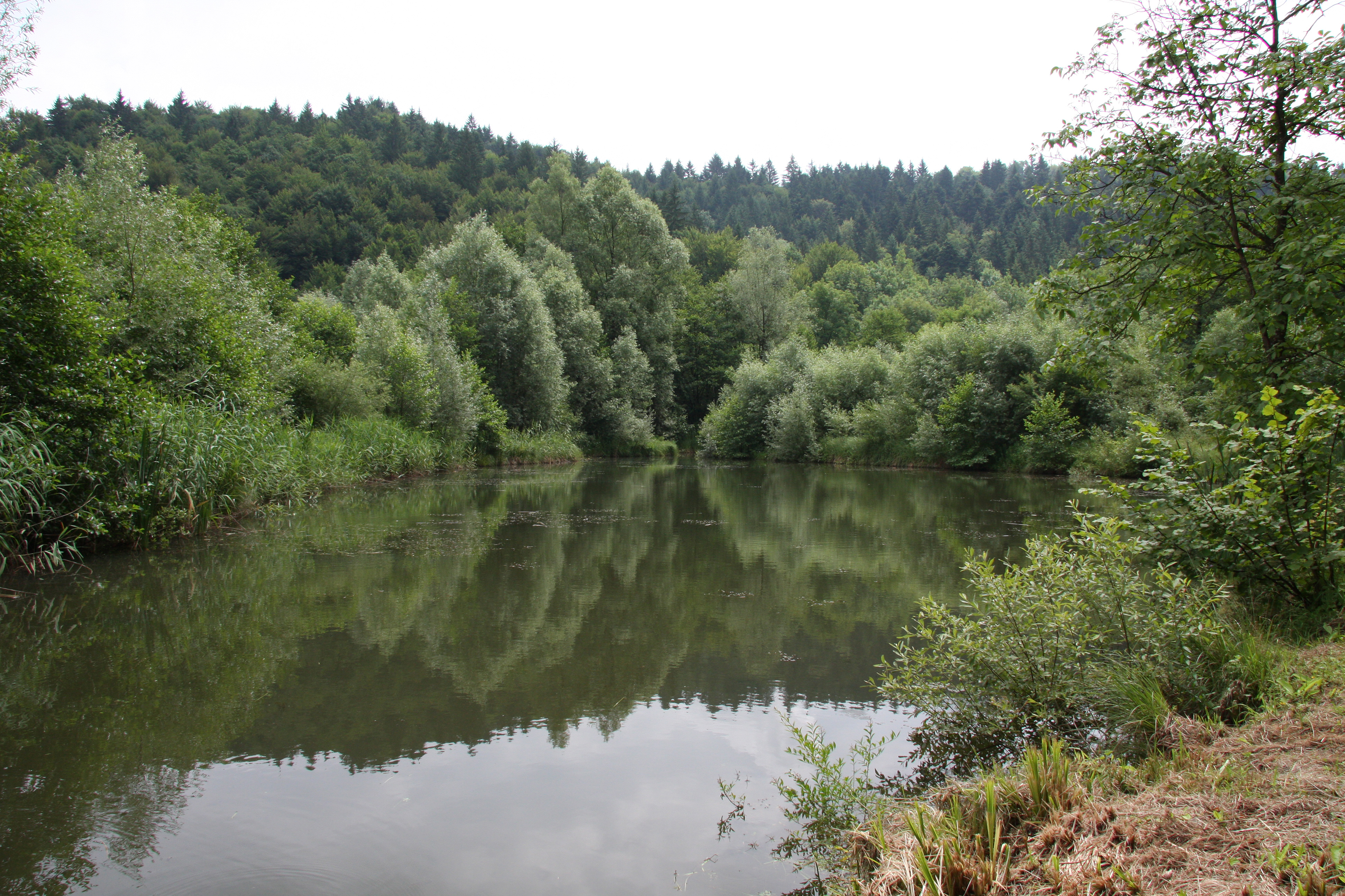 One of the Draga valley ponds near Ig, Slovenia.